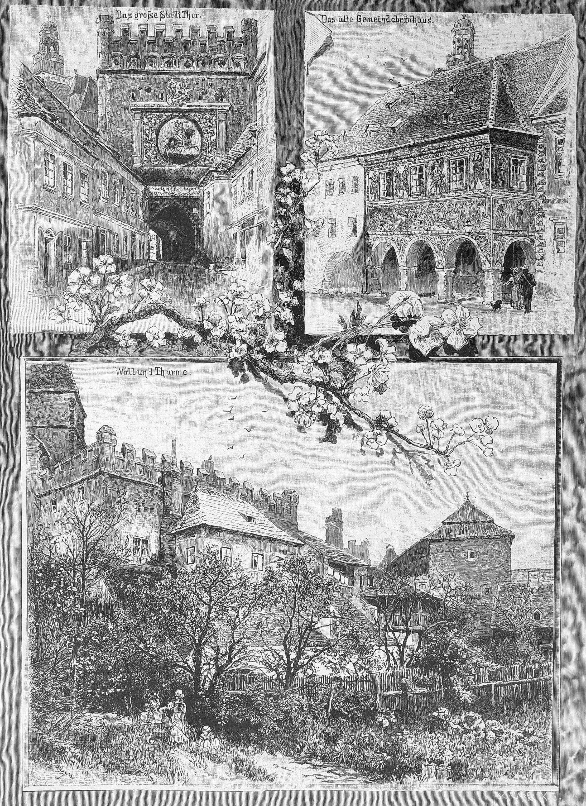 Image from page 729 of journal Die Gartenlaube, 1886.